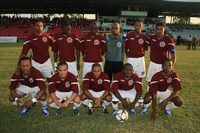 WBC Winner